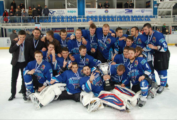 EBYSL Champion Photo